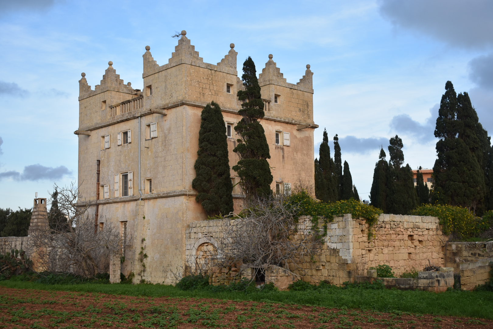 Bubaqra Tower This media is about Maltese cultural property with inventory number 01432.